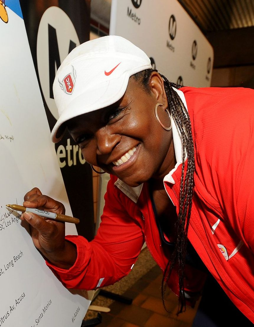 Valerie Brisco at an appearance for the Los Angeles County Metropolitan Transportation Authority.